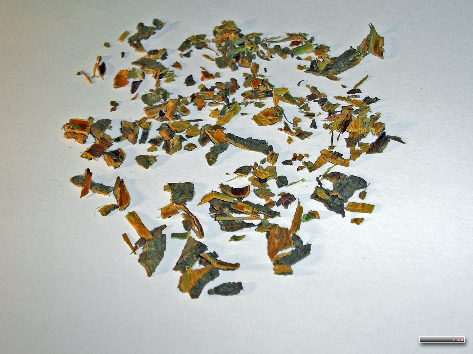 dried Frangula alnus (Alder Buckthorn; syn. Rhamnus frangula) bark